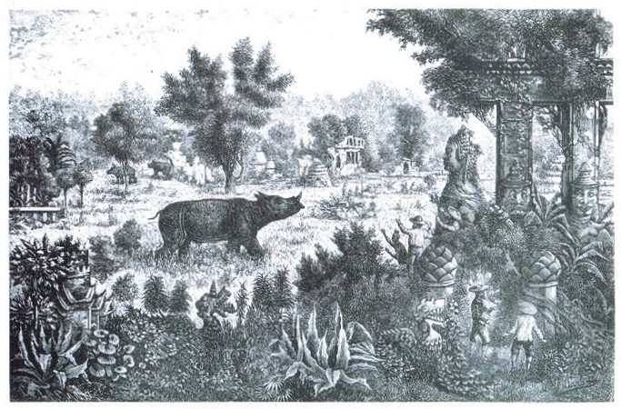 A sketch by Louis Delaporte made during the expedition up the Mekong of Francis Garnier in 1867. It shows Chiang Saen in ruins with a rhinoceros roaming the city.